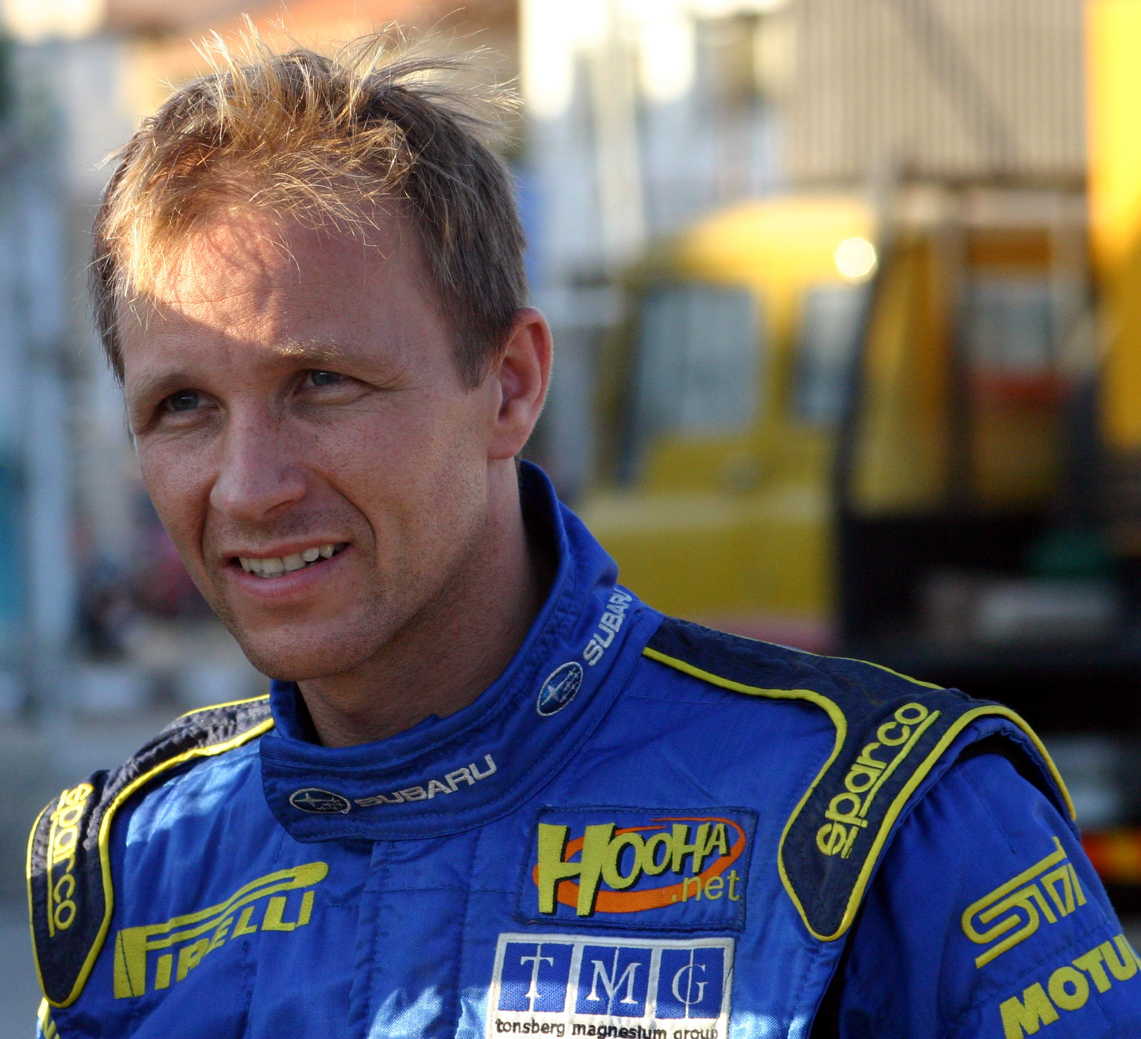 Petter Solberg at the closing ceremony of the 2006 Cyprus Rally.